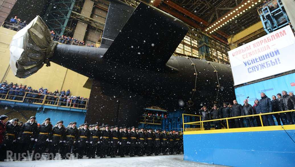 Roll out ceremony of nuclear submarine Kazan.